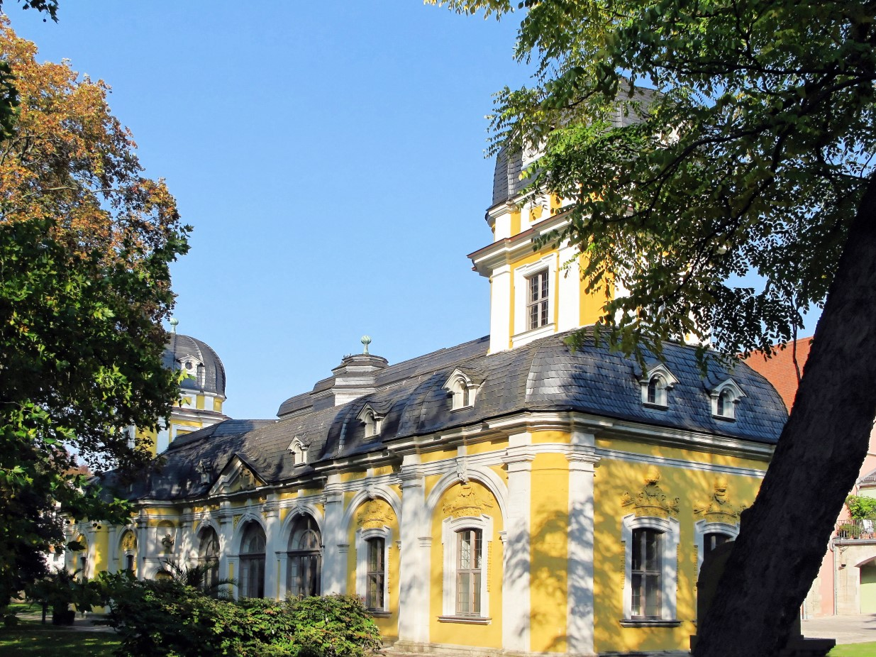 Hospital "Juliusspital" in Würzburg, Pavillion in the Park